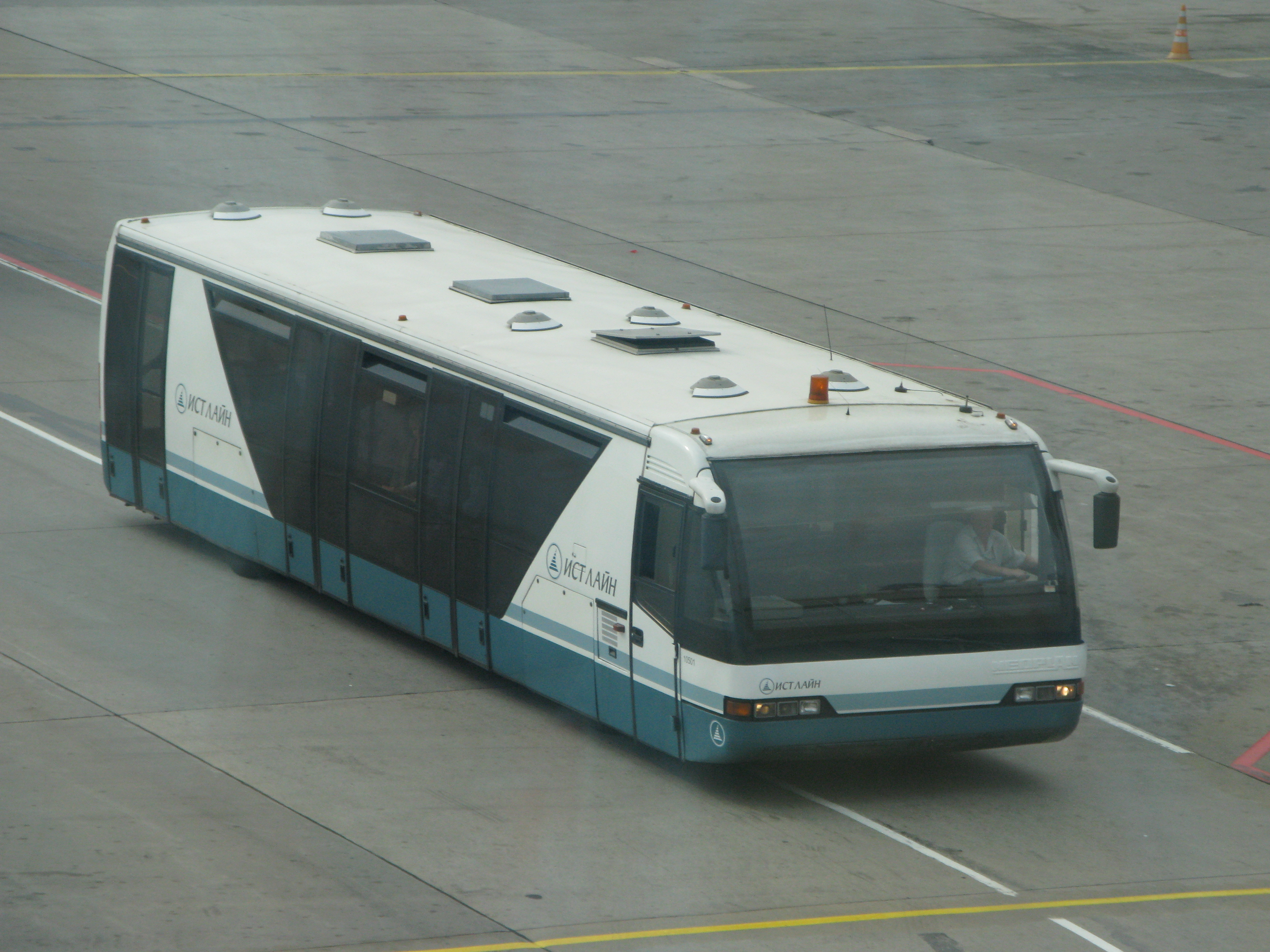 Airfield Neoplan shuttle bus in Domodedovo International Airport, Moscow, Russia